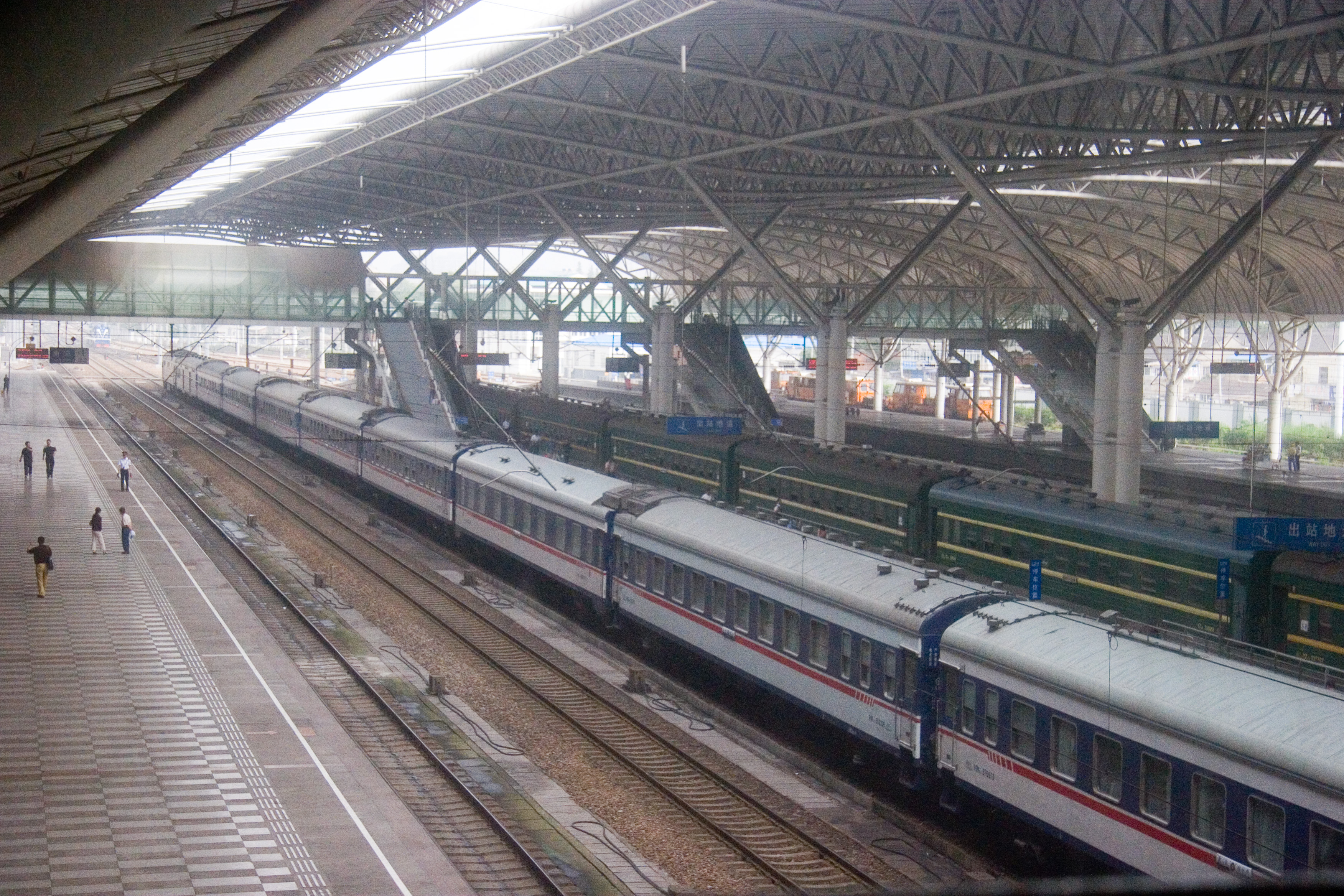 南京站 Nanjing Railway Station